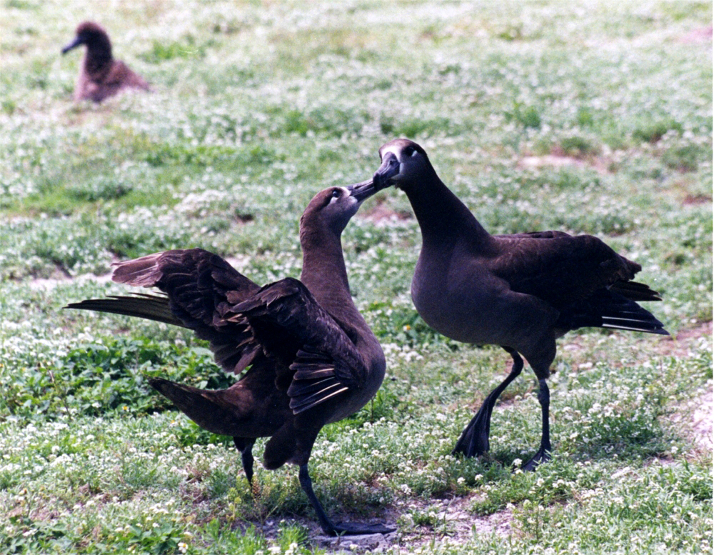 Dance of Black-footed Albatrosses at Midway Atoll. The image is a scan of an old print. The image was taken by Brocken Inaglory